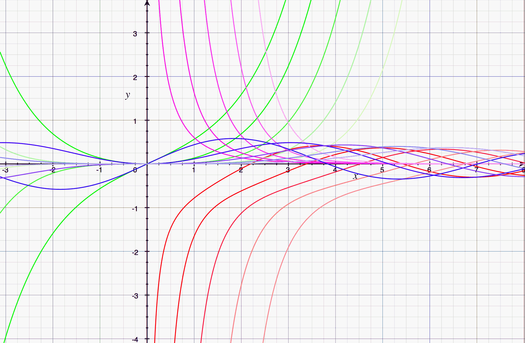 Bessel functions of the first kind Jn (blue), and second kind Yn (red), and modified Bessel functions of the first kind In (green), and second kind Kn (purple), for n = 1, 2, 3, 4, 5